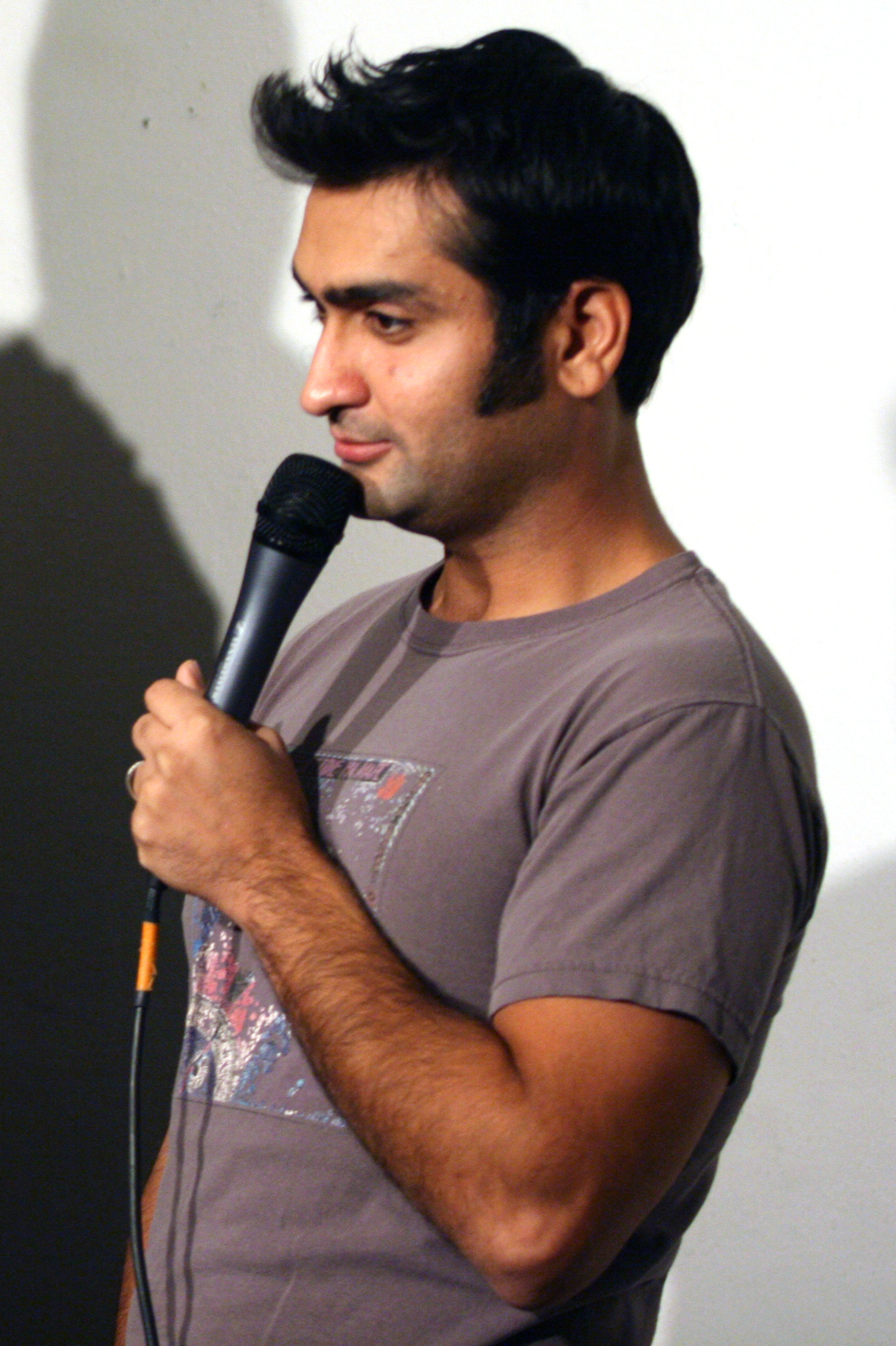 Jonah Ray goes over the events that transpired during his terrible restaurant experience Wednesday at the Meltdown. 12.7.11 © Atrossity Photography